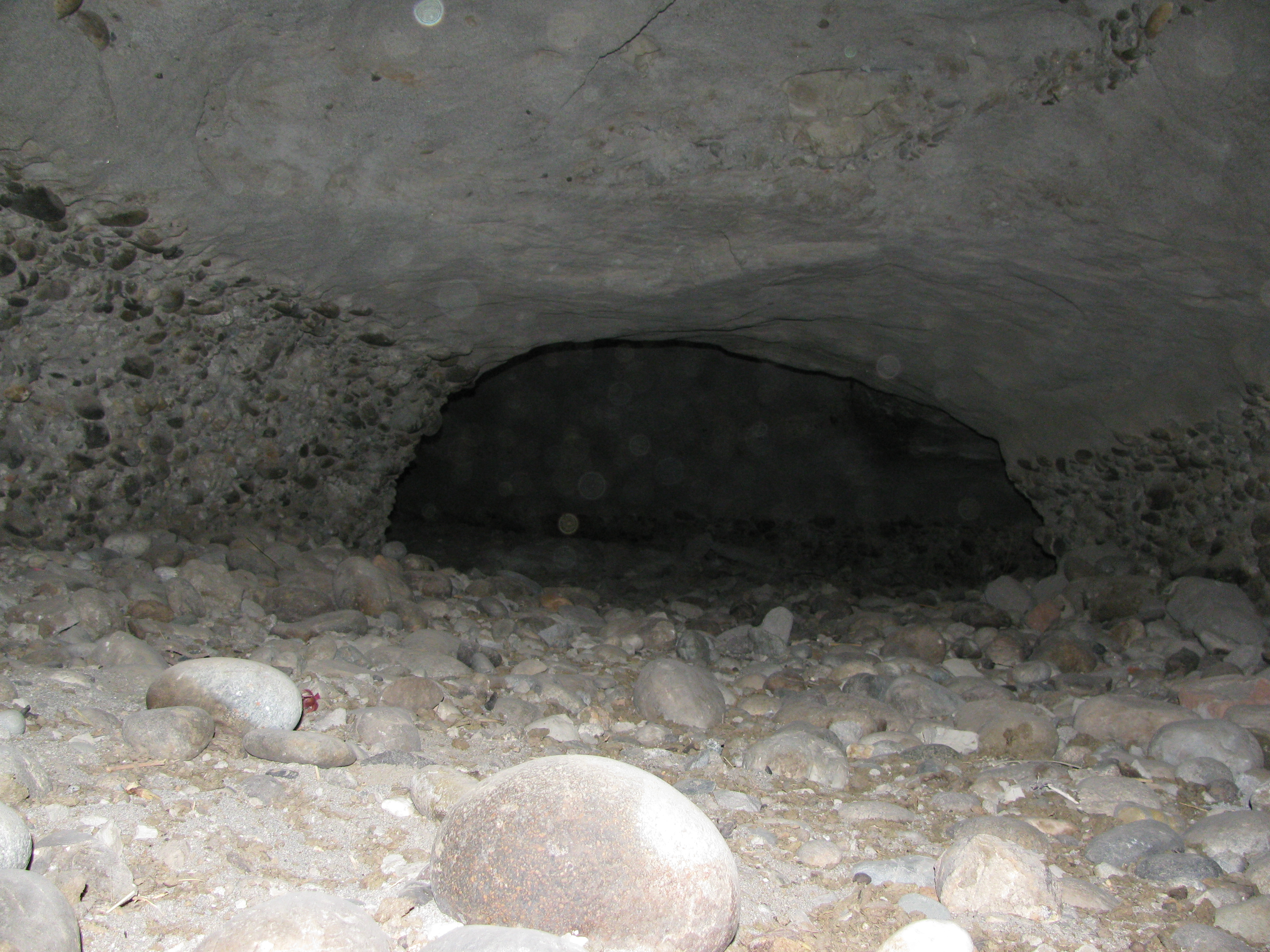 Some of the tunnels were clearly service or airflow, because the ceiling was either 15 feet tall or three. After visiting the village we went to the 'Buddhist Caves', which have been carved into a set of cliffs on the north side of the Kabul river. Interviews with locals yielded few results, they know virtually nothing about the pre-Islamic history of the country. These caves were part of a Buddhist monastery, and are significant because they were the home of part of the Edicts of Ashoka from around the year 272 BC probably put there by Devanampiya Tissa. The inscriptions are now in the Kabul Museum collection. The rest of the caves are completely looted. The only remains are the caves themselves, classic Buddhist 'hand' rock inscriptions, and the occasional remnants of stuccos or statues. In the year 629 the Chinese scholar Xuanzang visited the monastaries here and reported a 300 foot tall stupa. I'm not sure which stupa he is referring to of the ~37 in the area, but there is one above the caves which appears to be fairly elaborate. These caves also served in various wars over the years housing mujahadeen due to its good lookout position and ready retreat routes. We found bullets embedded in various places. More information